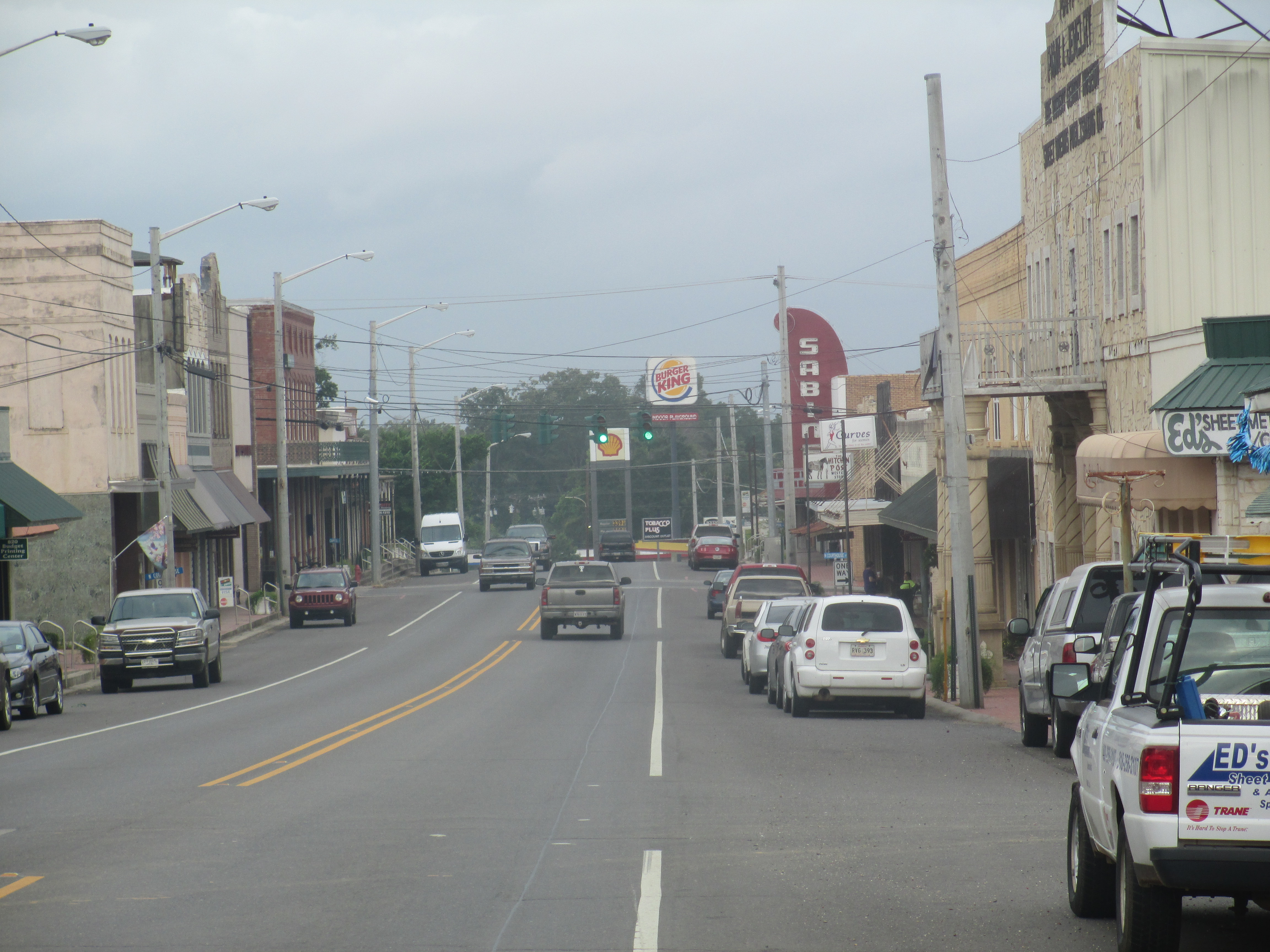 Louisiana Route 6 in central Many, Louisiana, looking west, 2013.